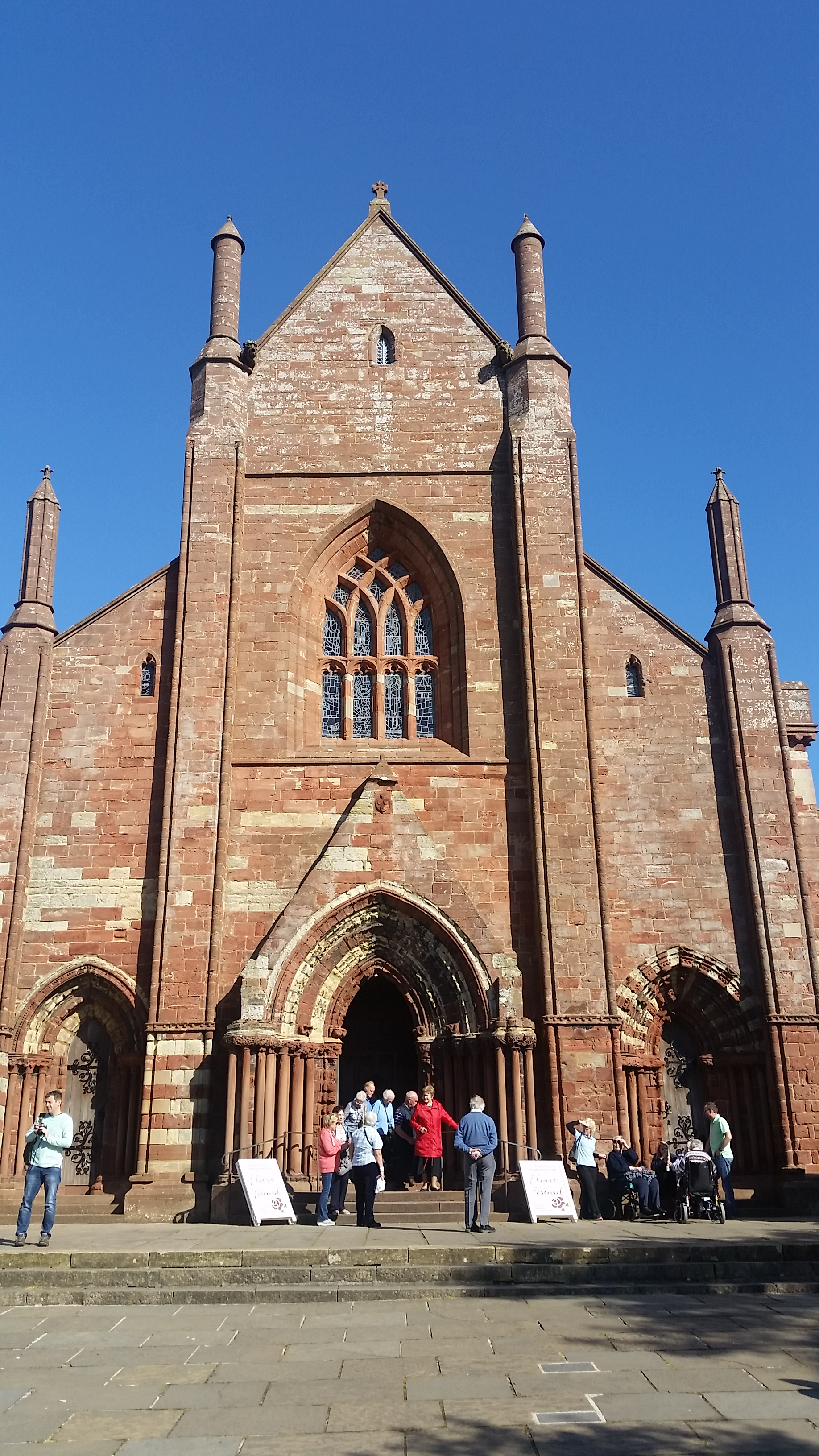 St Magnus Cathedral.